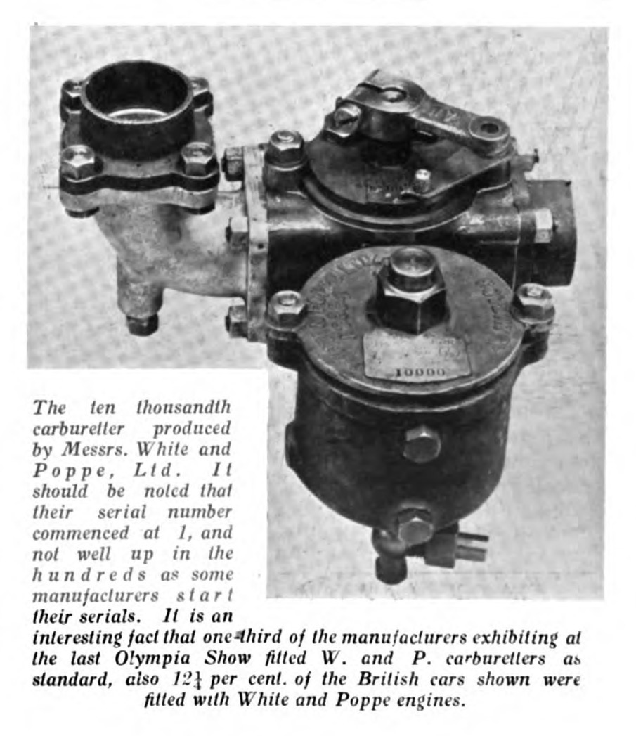 White and Poppe carburetter No. 10,000